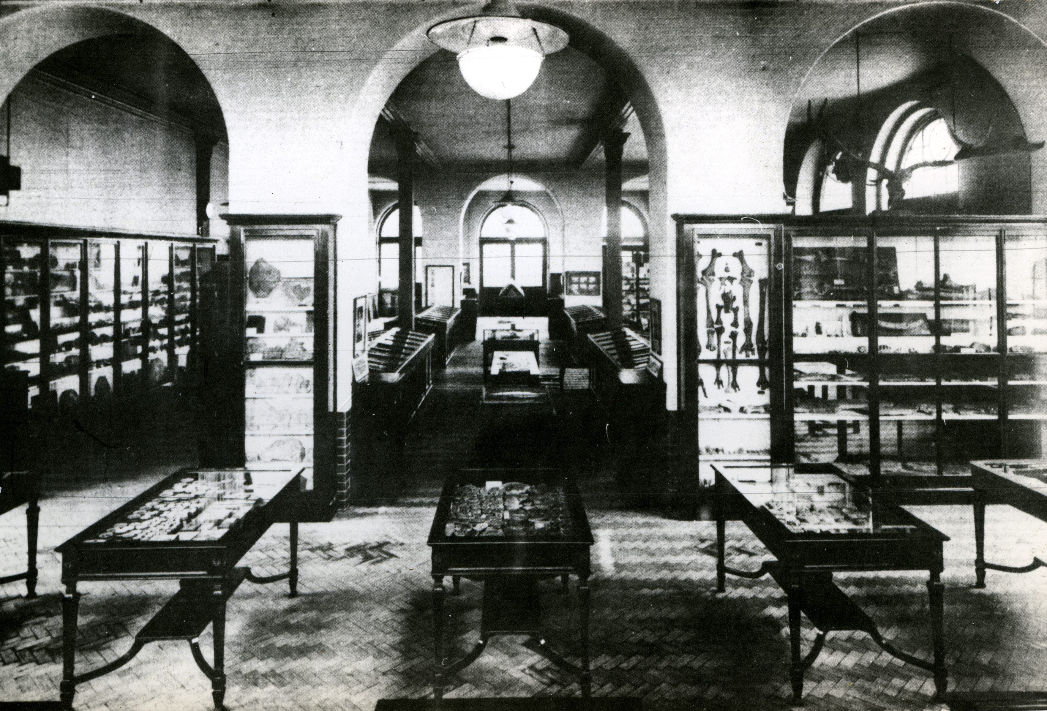 Exhibition hall of the Lapworth Museum of Geology, c. 1930. Image from the archive of the Lapworth Museum.